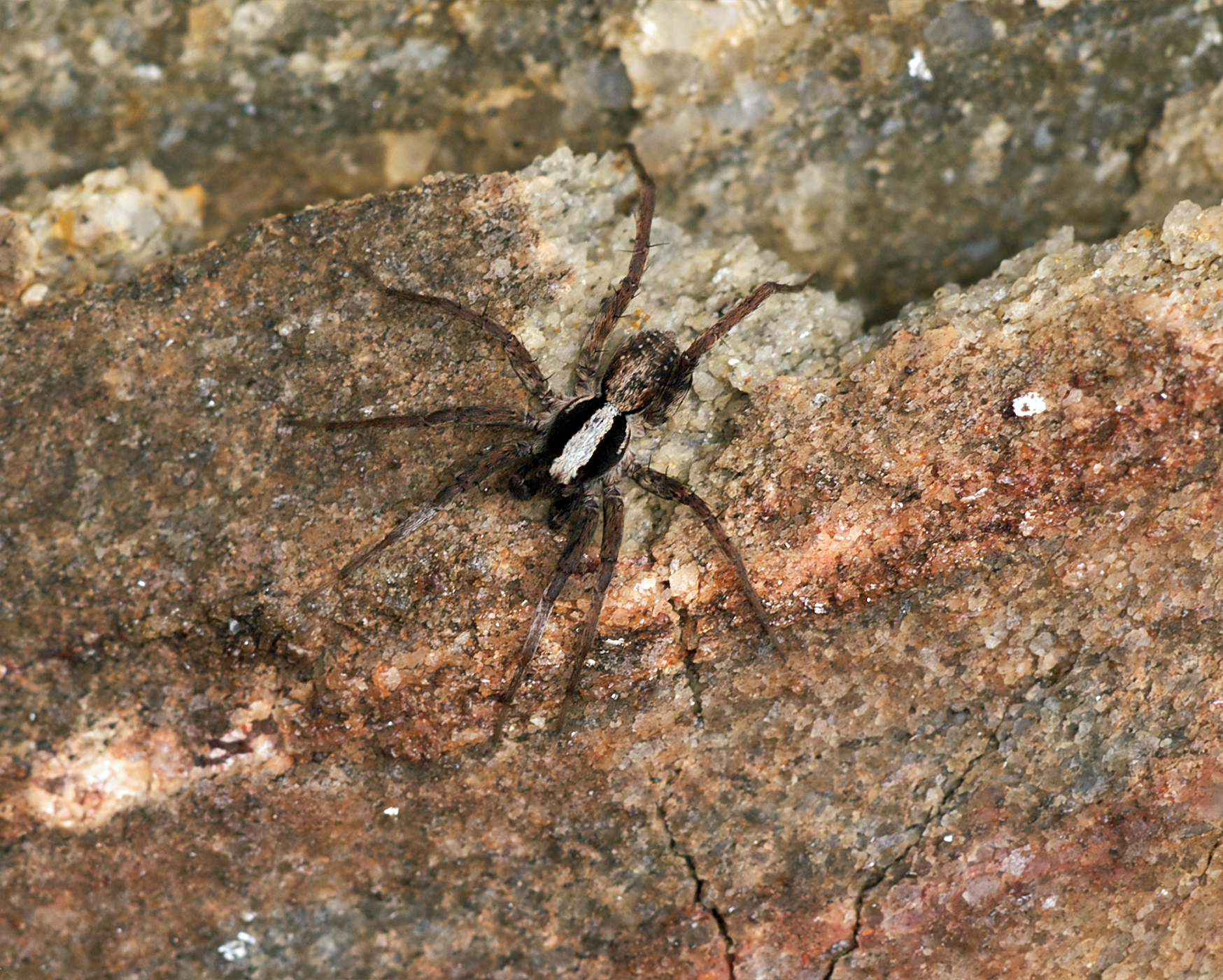 Male Wolfspider (Xerolycosa nemoralis), Straumen, Norway